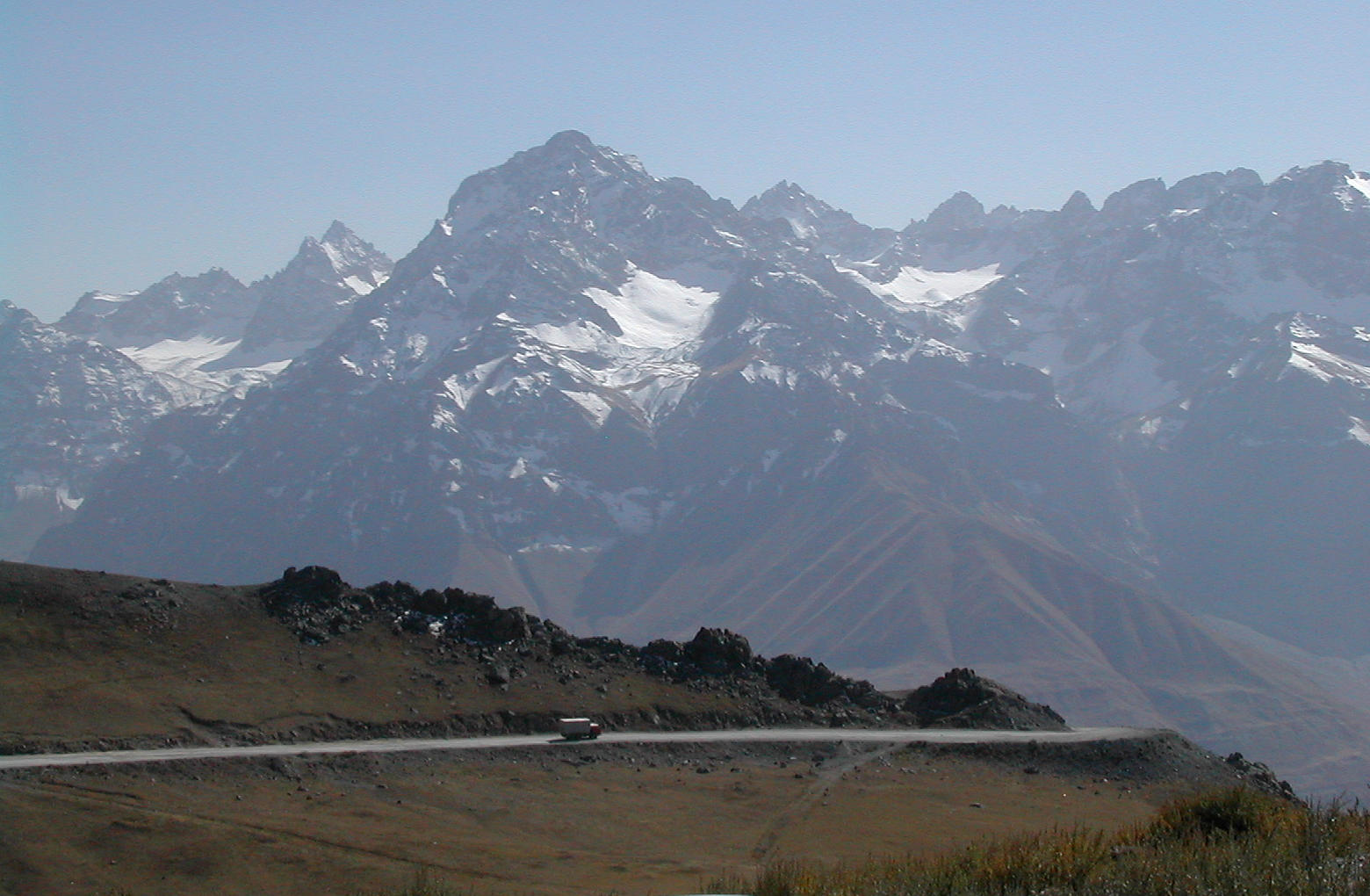 M34 highway at Anzob Pass, Tajikistan Тоҷикӣ: Ноҳияи Айнӣ, Тоҷикистон